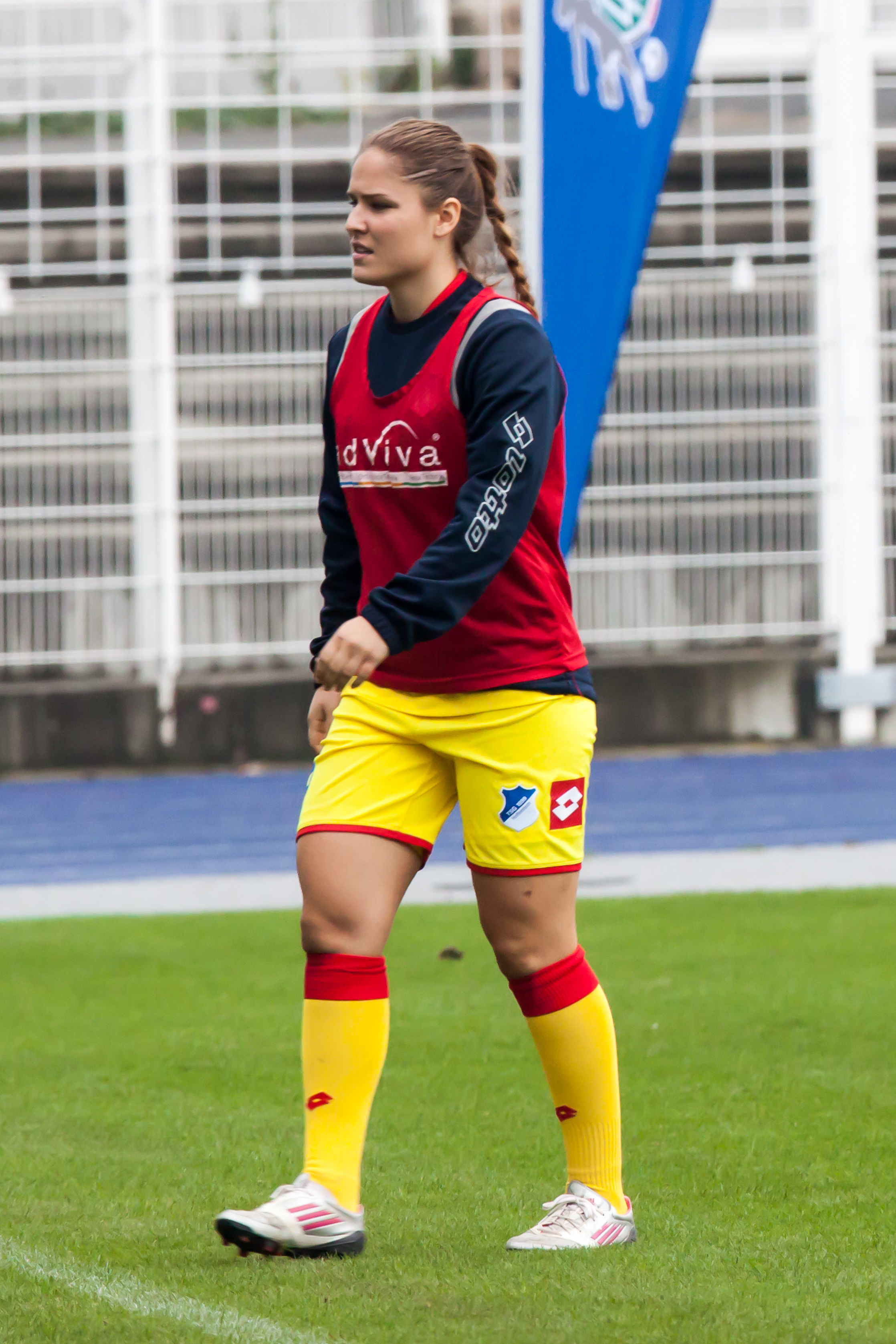 German Women Bundesliga soccer game: FF USV Jena vs. TSG 1899 Hoffenheim, 2014-10-11, at Ernst-Abbe-Sportfeld Jena.